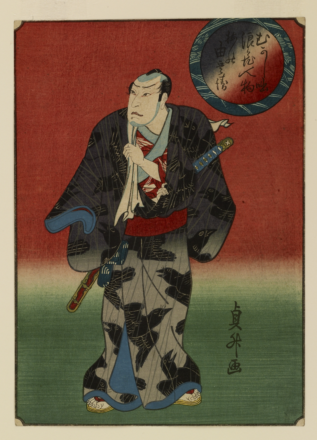 The play's protagonist, Ume no Yoshibei, was based on a local folk hero.